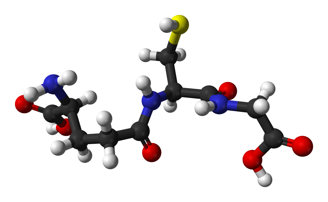 Ball-and-stick model of the glutathione molecule, C10H17N3O6S. X-ray crystallographic data from W. B. Wright (September 1958). "The crystal structure of glutathione". Acta Cryst. 11 (9): 632-642. Image generated in Accelrys DS Visualizer.